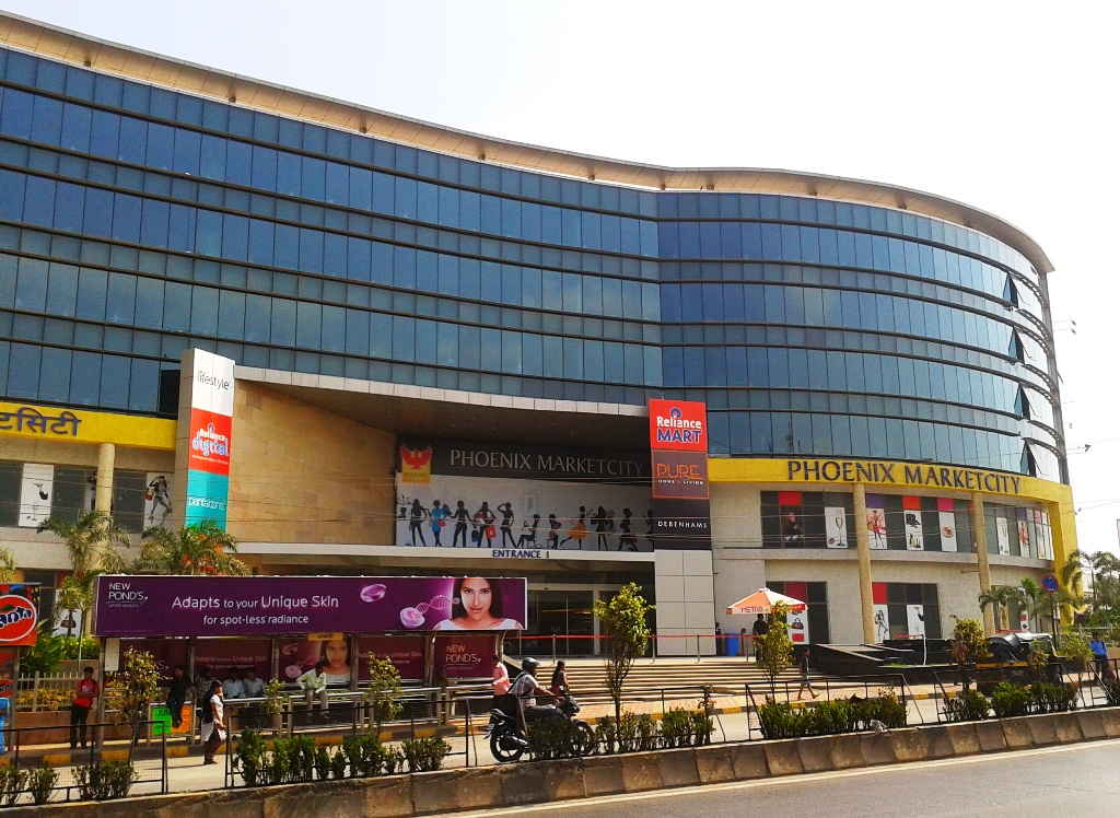 Facade of Phoenix Market City Mall in Kurla, Mumbai.